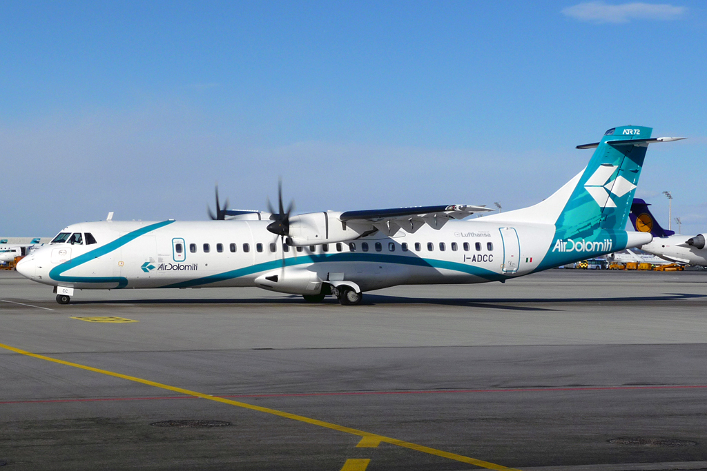 Aircraft at Munich Airport, shortly before a flight to Italy.